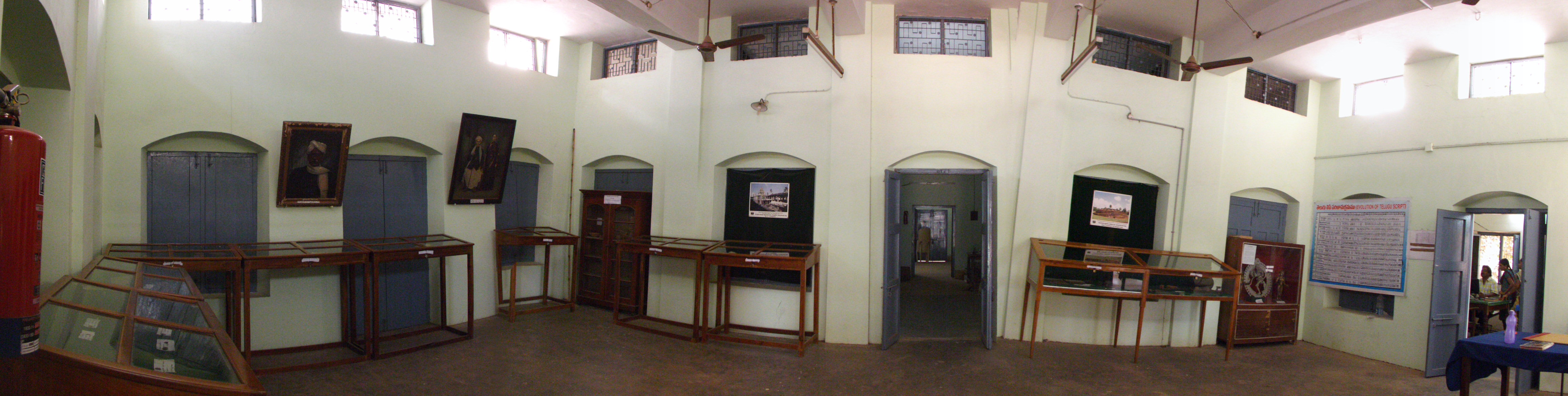 Andhra Sahitya parishat ( ANDHRA SAHITYA PARISHAD GOVERNMENT MUSEUM AND RESEARCH INSTITUTE ) Kakinada